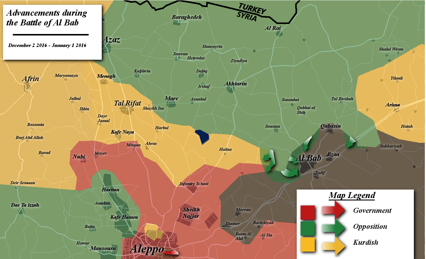 A simplified map of Turkish advancements during the battle of Al Bab. Created in gimp 2.8. Influenced by many maps from creators: MrPenguin20, PetoLucem, Edmaps Syria, and so on.